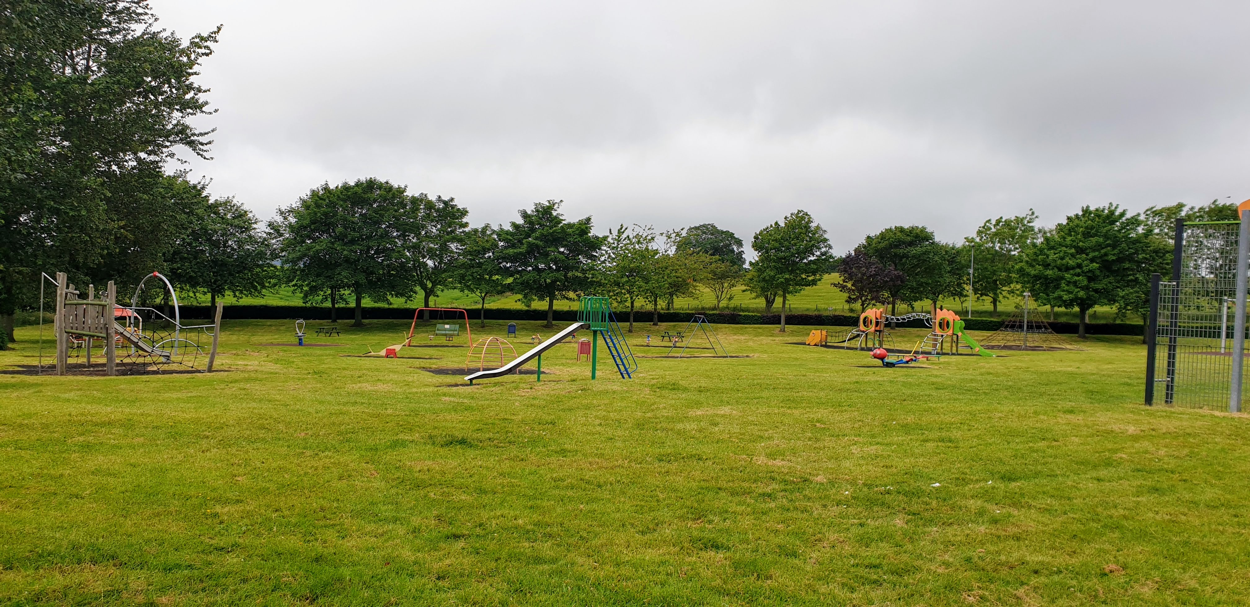 Play park in Newmachar, consists of a number of swings, slides and climbing equipment on a grassy field. also has a football/basketball area (on grass).